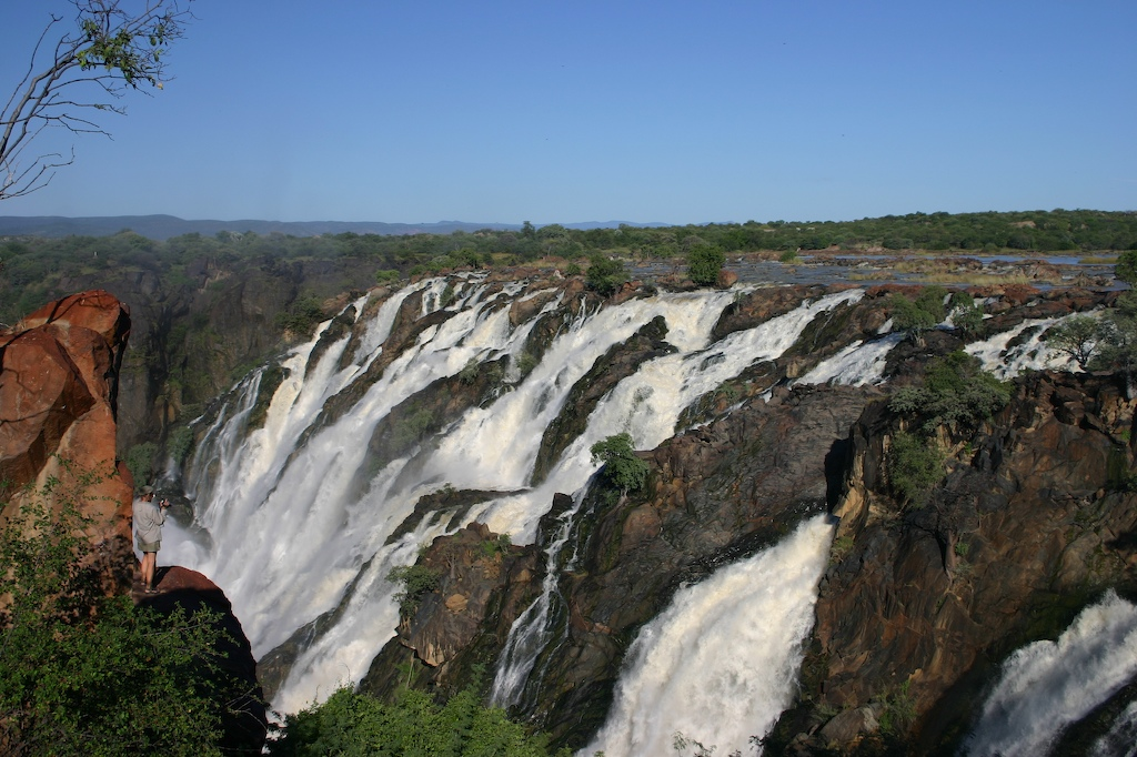 The Ruacana Falls in the Kunene river, seen from the Namibian side. It is 1km from Ruacaná, in the Cunene province of Angola, and c. 20km west of Ruacana town in the Kunene Region of Namibia